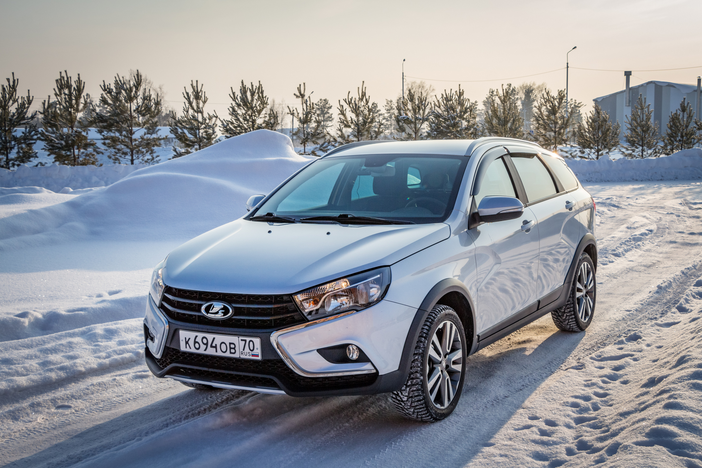 Lada Vesta SW Cross. Photographed in Tomsk, Russia.